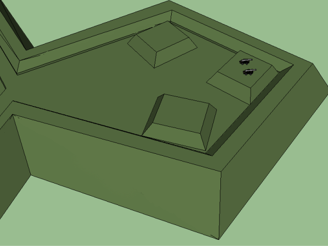 Kat, platform for guns on top of fortifications